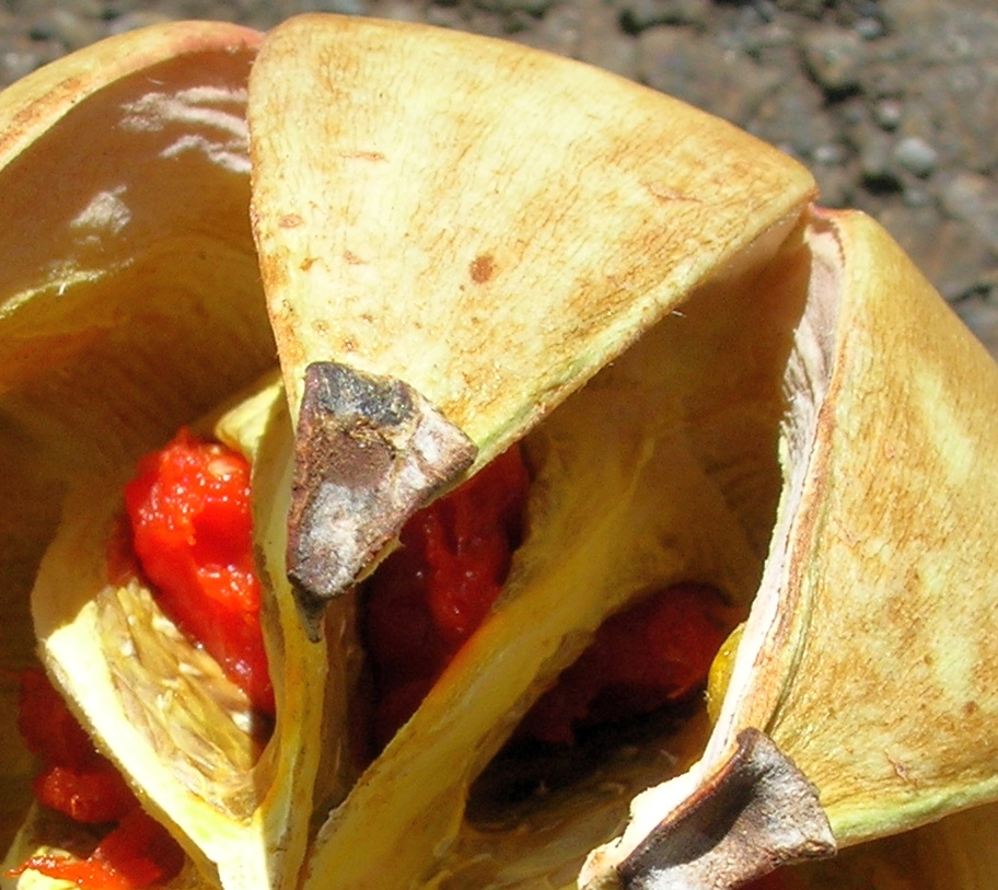 Clusia rosea (fruit). Location: Maui, Kahului Airport